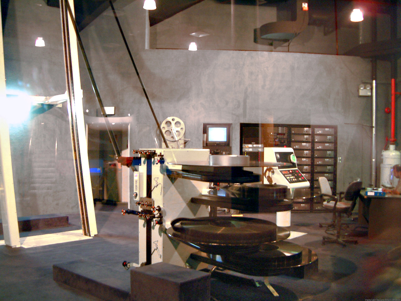 Interior of an IMAX Dome control room Science Centre OMNI-Theatre, Republic of Singapore Img by Calvin Teo. June 2005